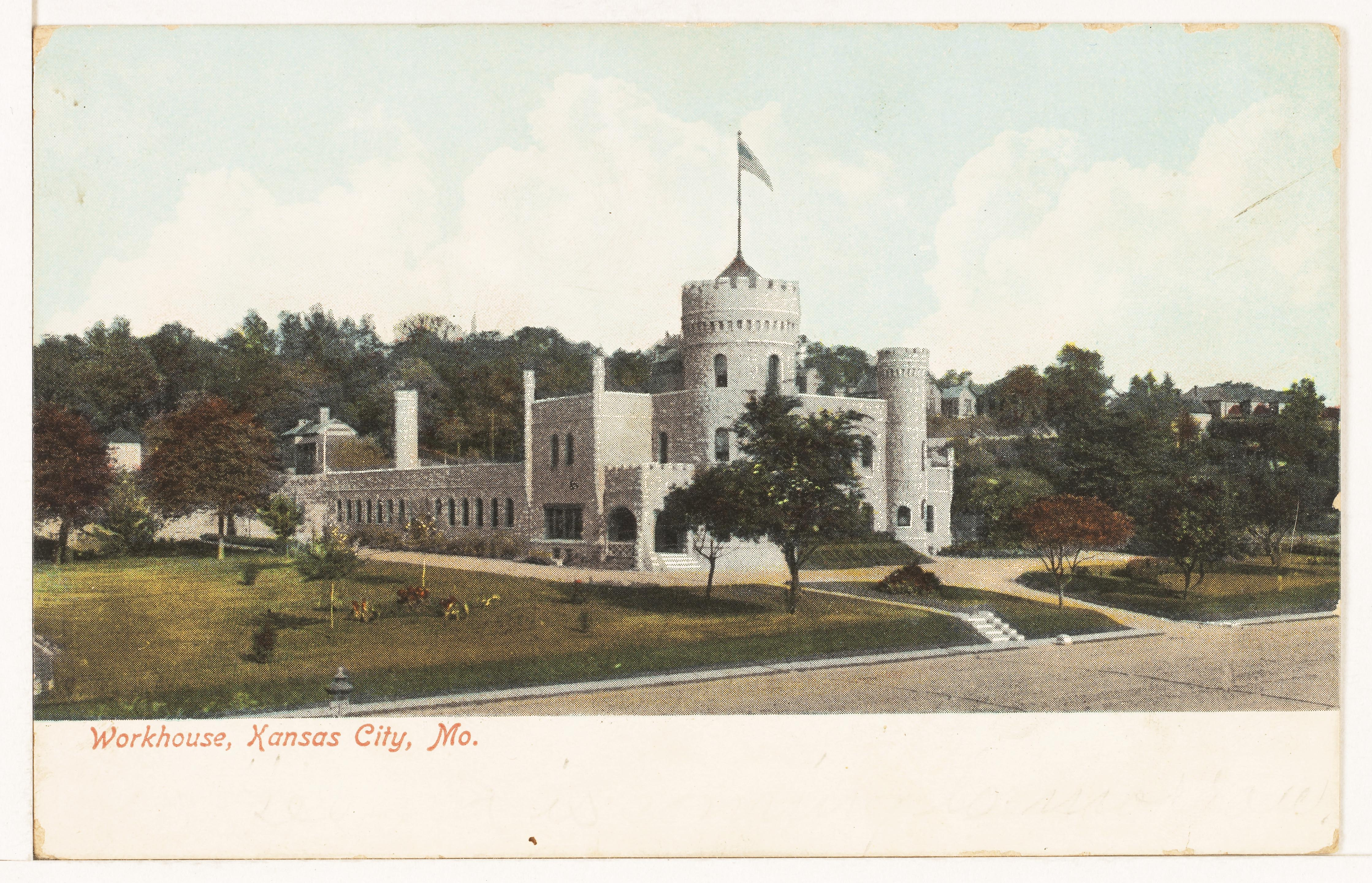 Postcard of the Kansas City workhouse castle, circa 1907, from the Mrs. Sam Ray Postcard Collection